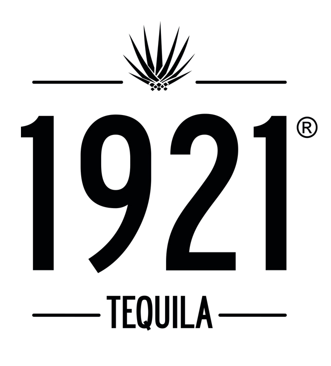 1921® Tequila